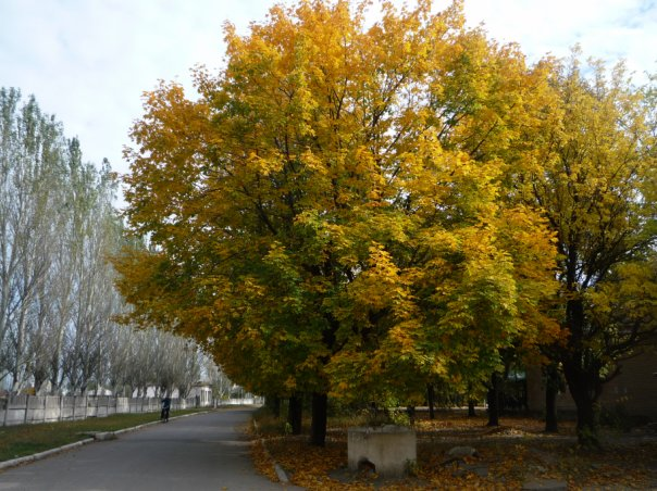 My